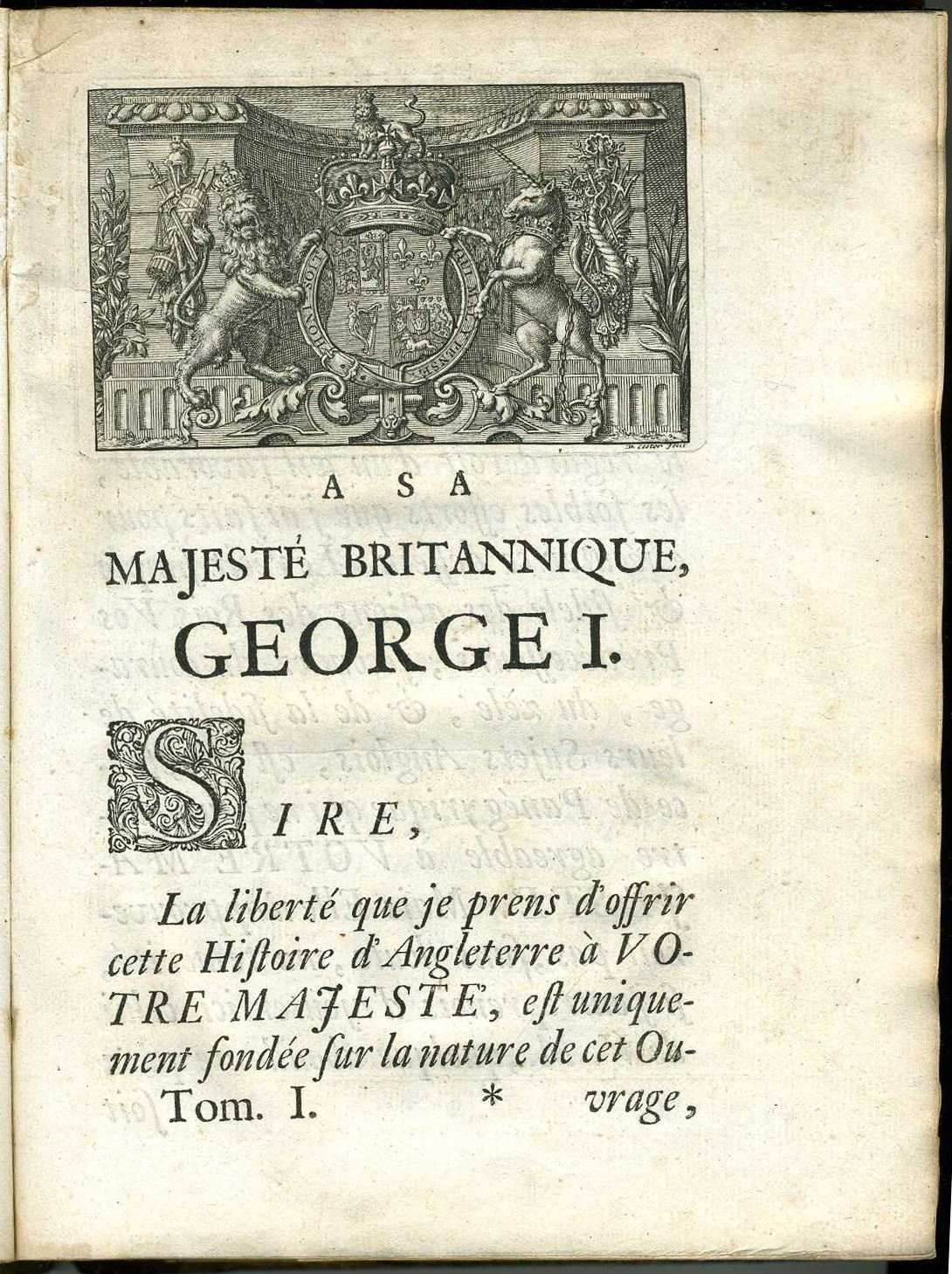 Dedication page from de Rapin's Histoire d'Angleterre